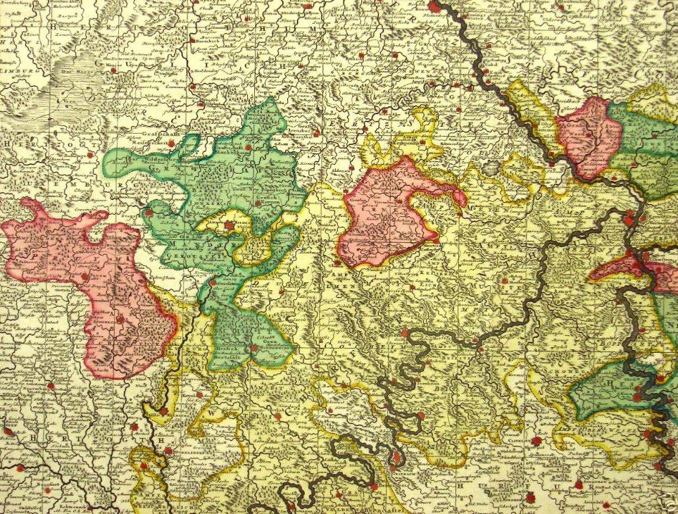 Map showing most of the Electorate of Trier (in yellow) with the vast territory of the Imperial Abbey of Prüm (far left, in pink), and adjacent states such as the County of Manderscheid (left, in green). In the 16th century, Prüm had come under the rule of the archbishop-elector of Trier who had himself named 'Perpetual Administrator" of the Imperial Abbey. The abbey enjoyed a large autonomy and the monks elected their own abbot, often in defiance of the wishes of the Elector of Trier. Cropping from a map by N. Visscher II titled Archiepiscopatuc ac Electoratus Trevirensis Ditio. (c. 1720 reprint)